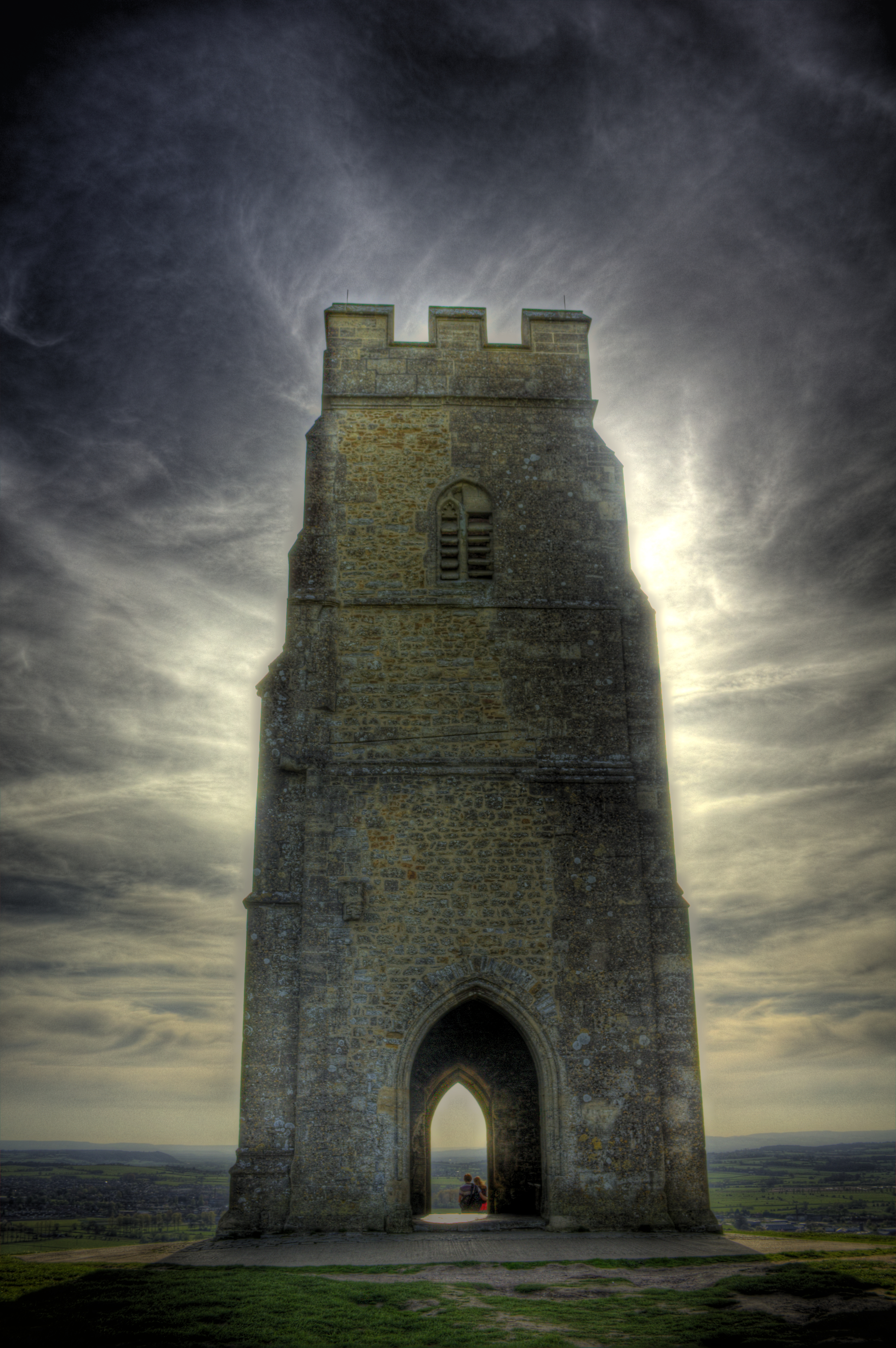 ST MICHAELS CHURCH TOWER Wikidata has entry Q1412726 with data related to this building.